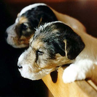 Wire Fox Terrier - puppies